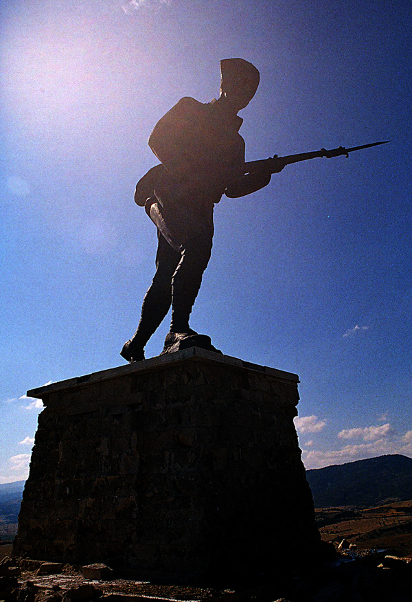 Statue at the top of the hill at the war memorial for the Battle of Dumlupınar. The photograph was taken with a Nikon Nikkormat EL in late July 2007 on Kodak 200 ASA negative film.